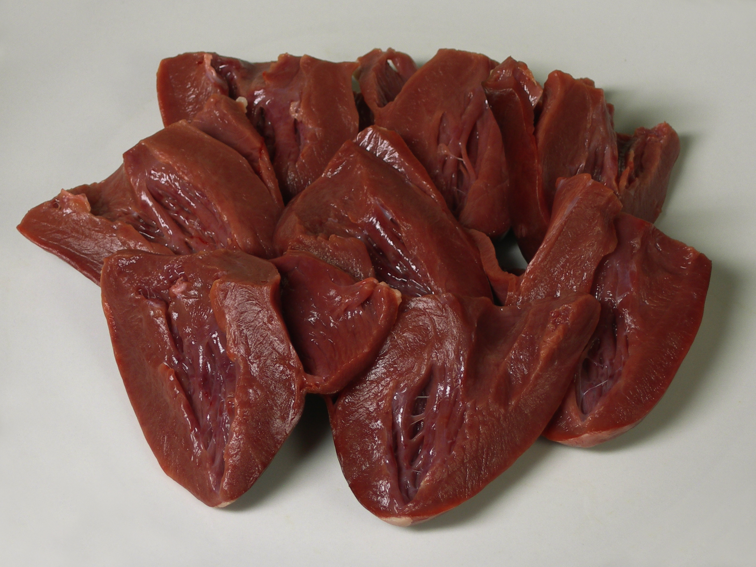 Hearts of turkey, prepared for cooking